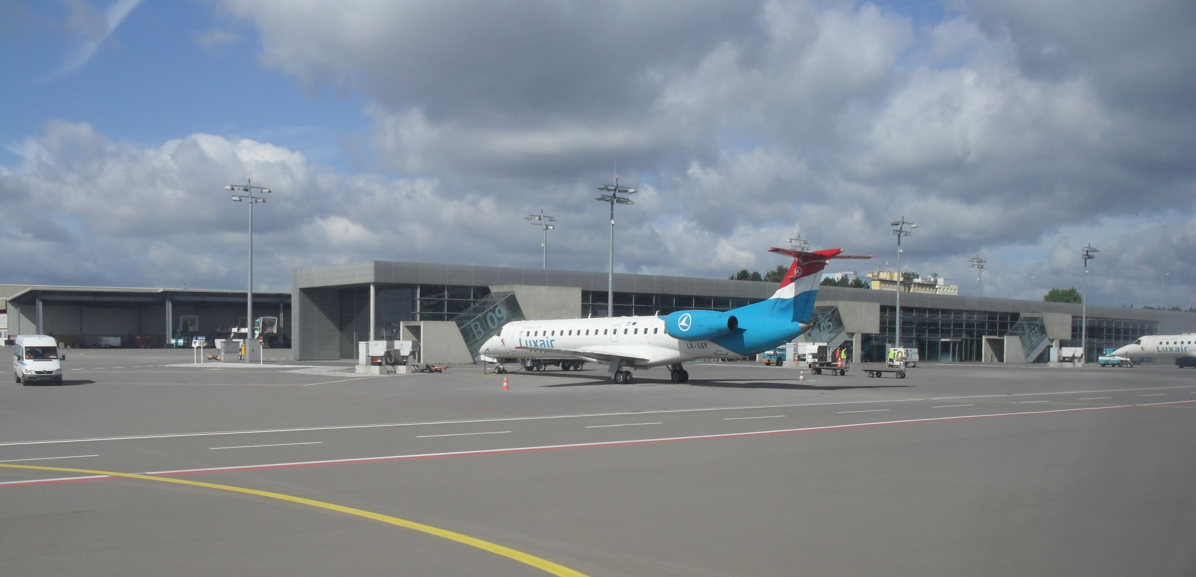 The terminal B at Findel airport, Luxembourg. View from plane after landing.